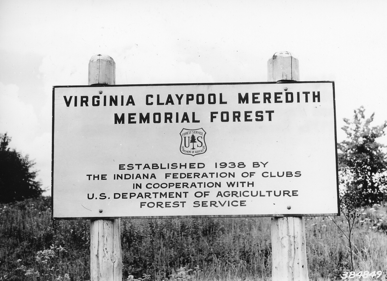 Scope and content: Original caption: Sign on Virginia Claypool Meredith plantation. Hwy.150 between Shoals and French Lick. Established 1938-1939.